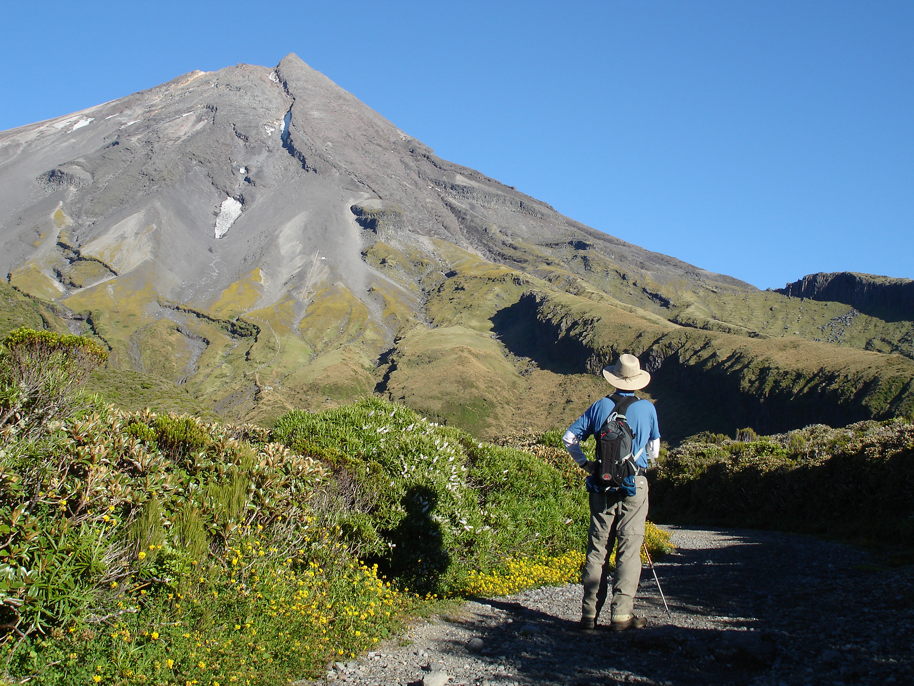 Mount Taranaki, Egmont NP, North Island, New Zealand